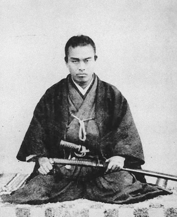 Nakaoka_Shintaro（1838-1867）